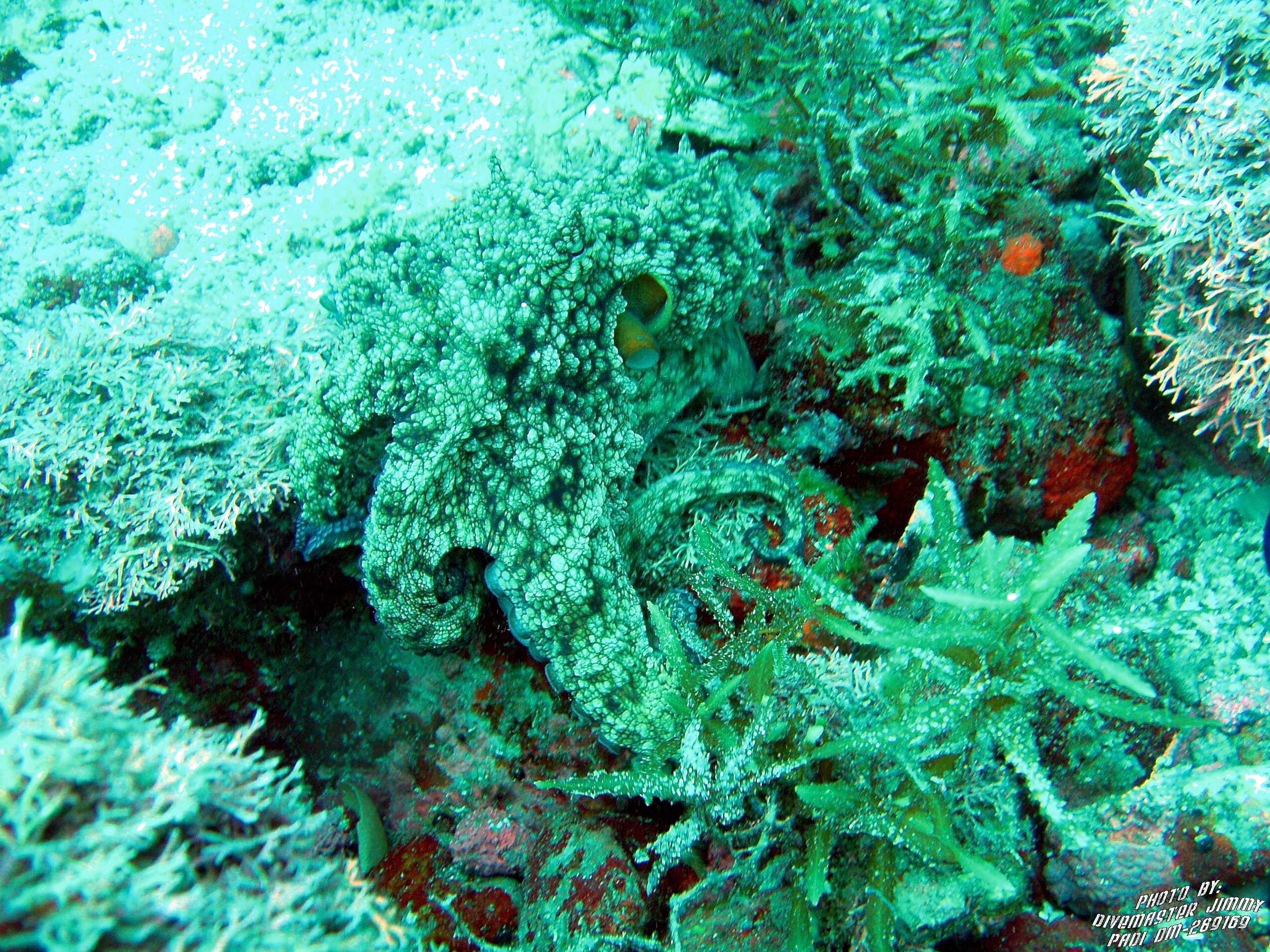 Octopus at Magnalena Bay